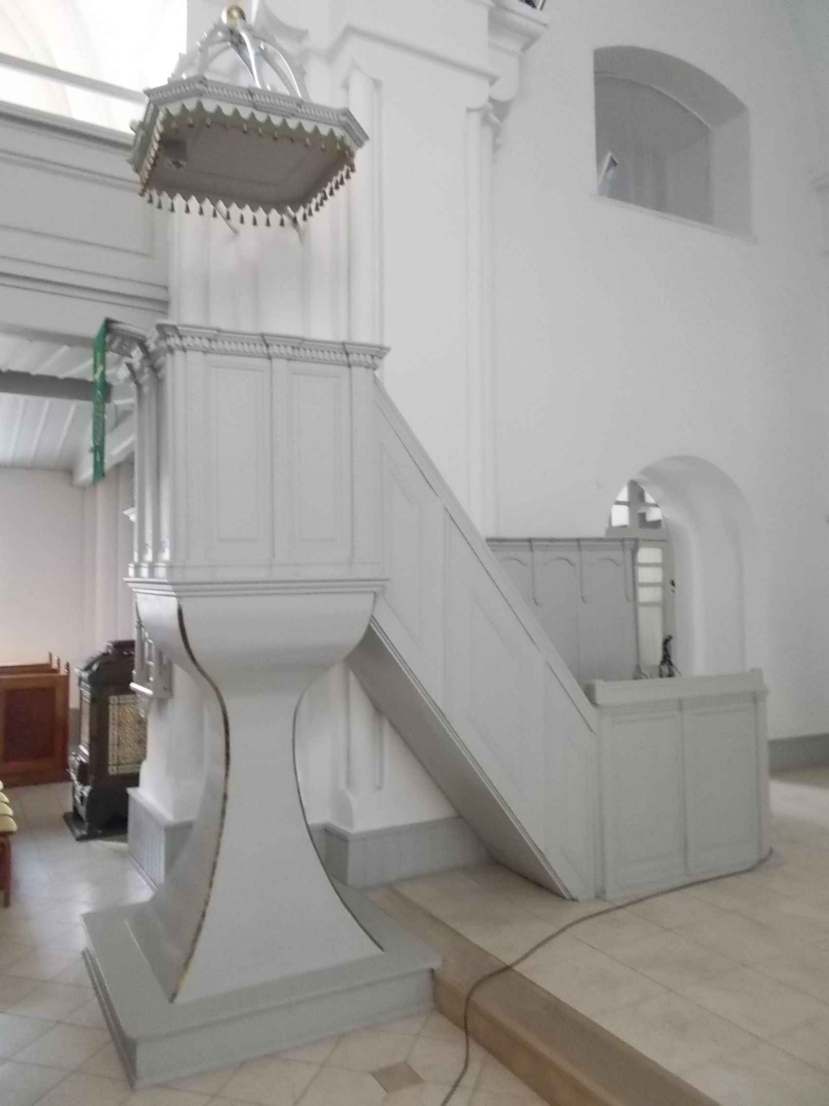 Lutheran church. - Arany János St., Kecskemét, Bács-Kiskun County, Hungary.